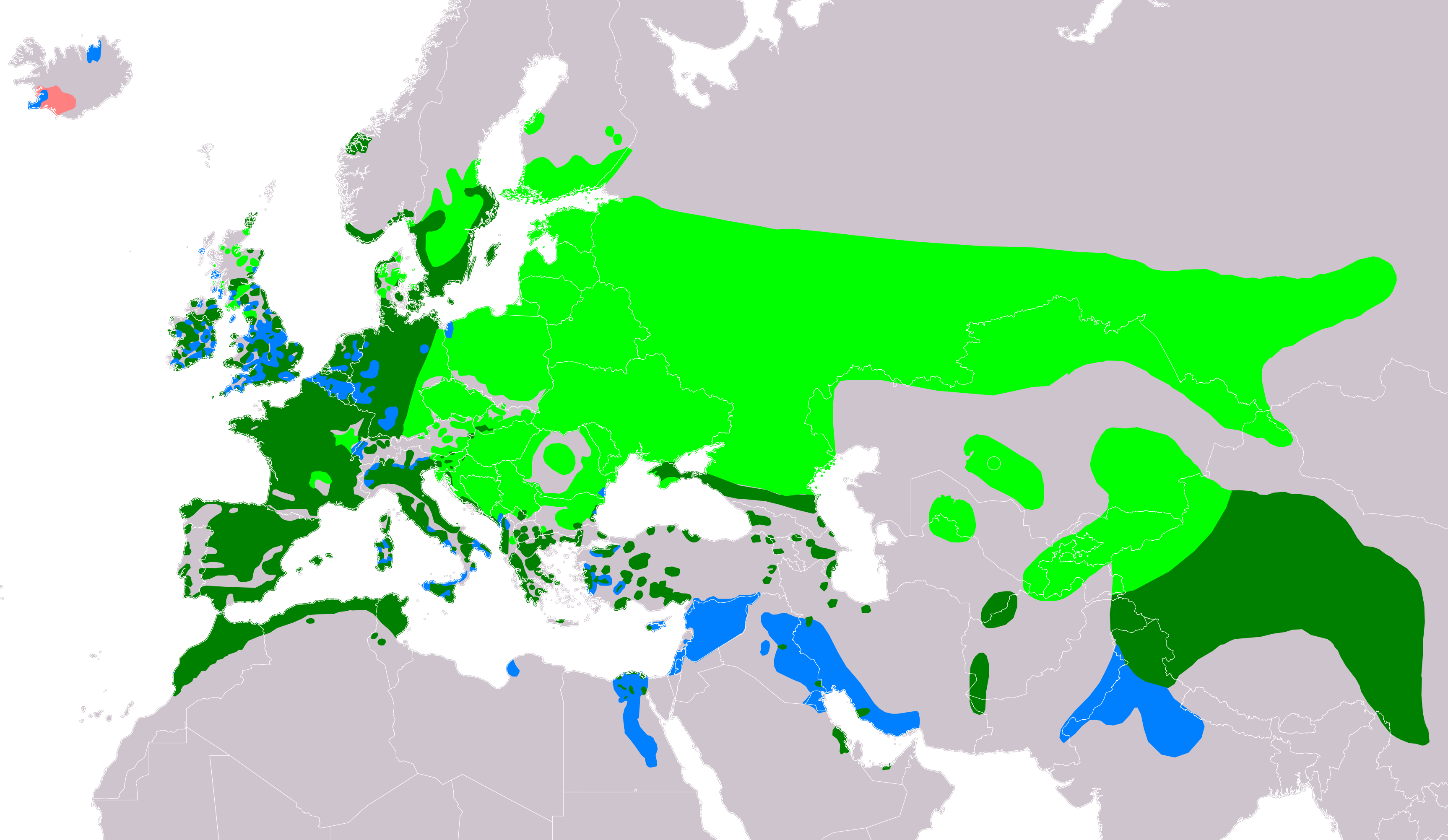 Distribution map of western water rail (Rallus aquaticus) according to IUCN version 2019-2 ; key: Legend: Extant, breeding (#00FF00), Extant, resident (#008000), Extant, non-breeding (#007FFF), Probably extinct (#FF8080)